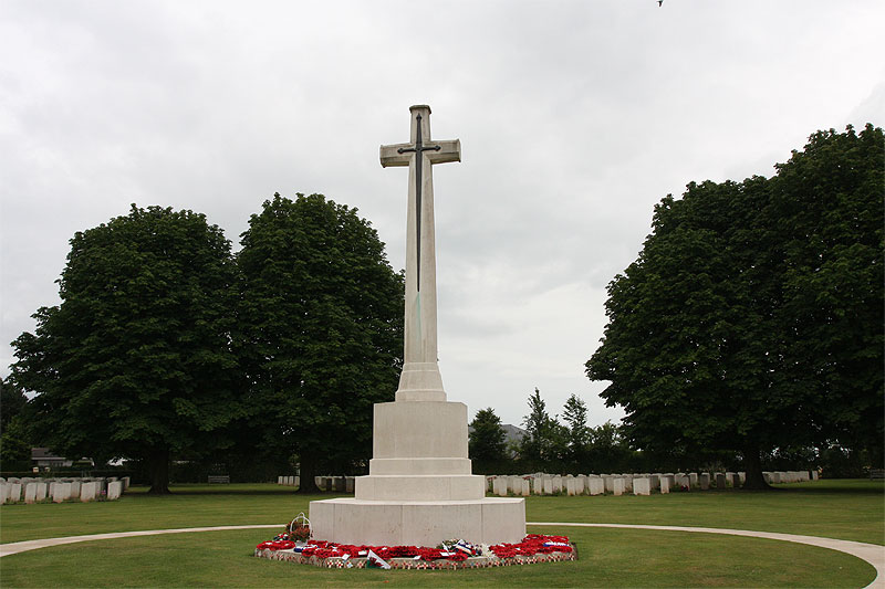 The Cross of Sacrifice in the Bayeux War Cemetery. Photo by Kevin C. Fitzpatrick, July 2008.